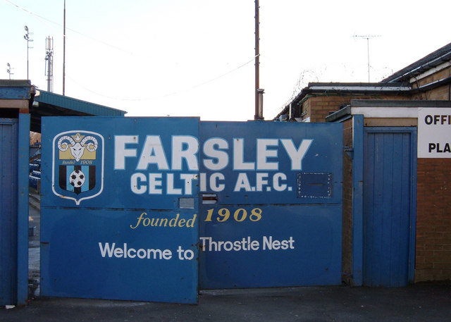 Welcome to Throstle Nest Throstle Nest is where Farsley Celtic AFC play in the Conference North league. It is the club's centenary year next year and it hopes to celebrate the milestone anniversary with a victory.